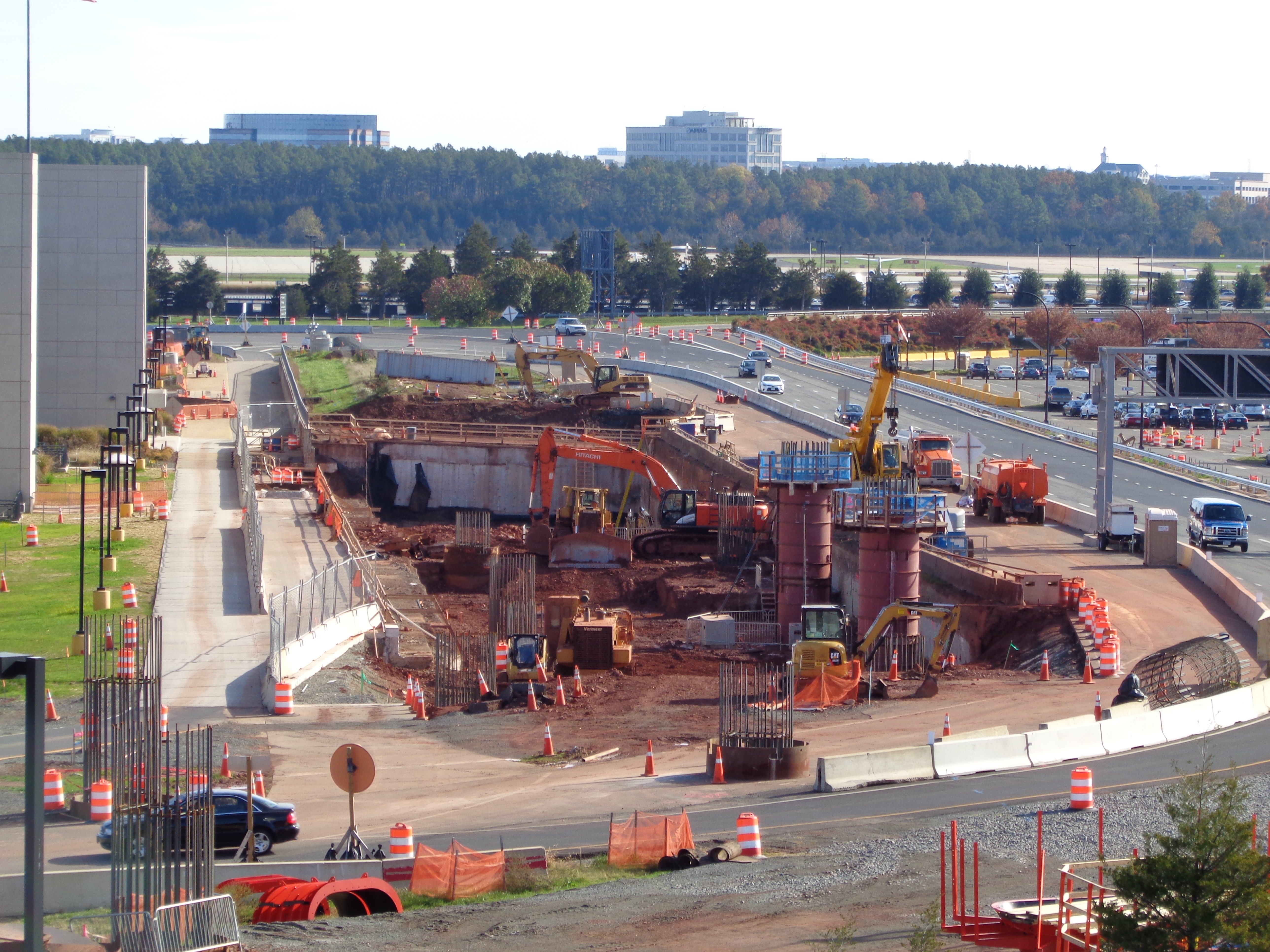 Dulles Metro Station under construction during November 2015 next to the North Parking garage.